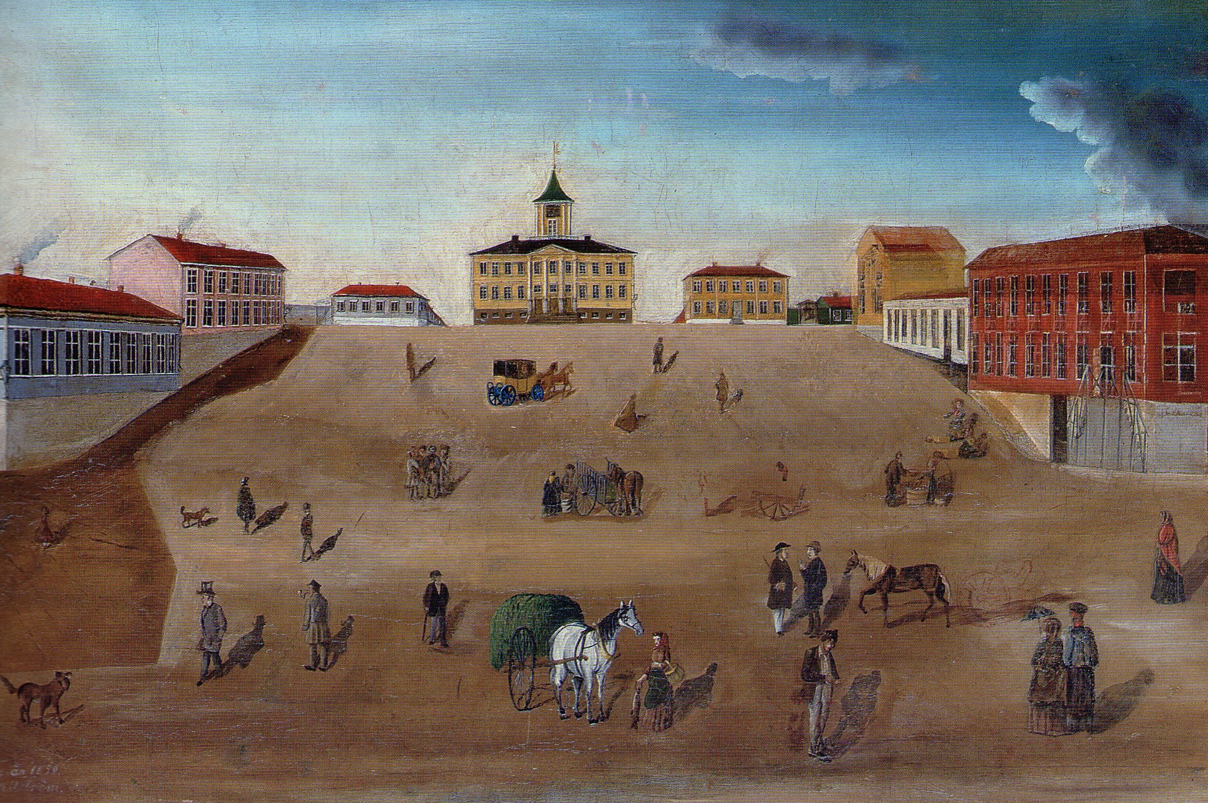 The Great Square of Pori in 1852. Painting by Johan Isak Sillstrom.